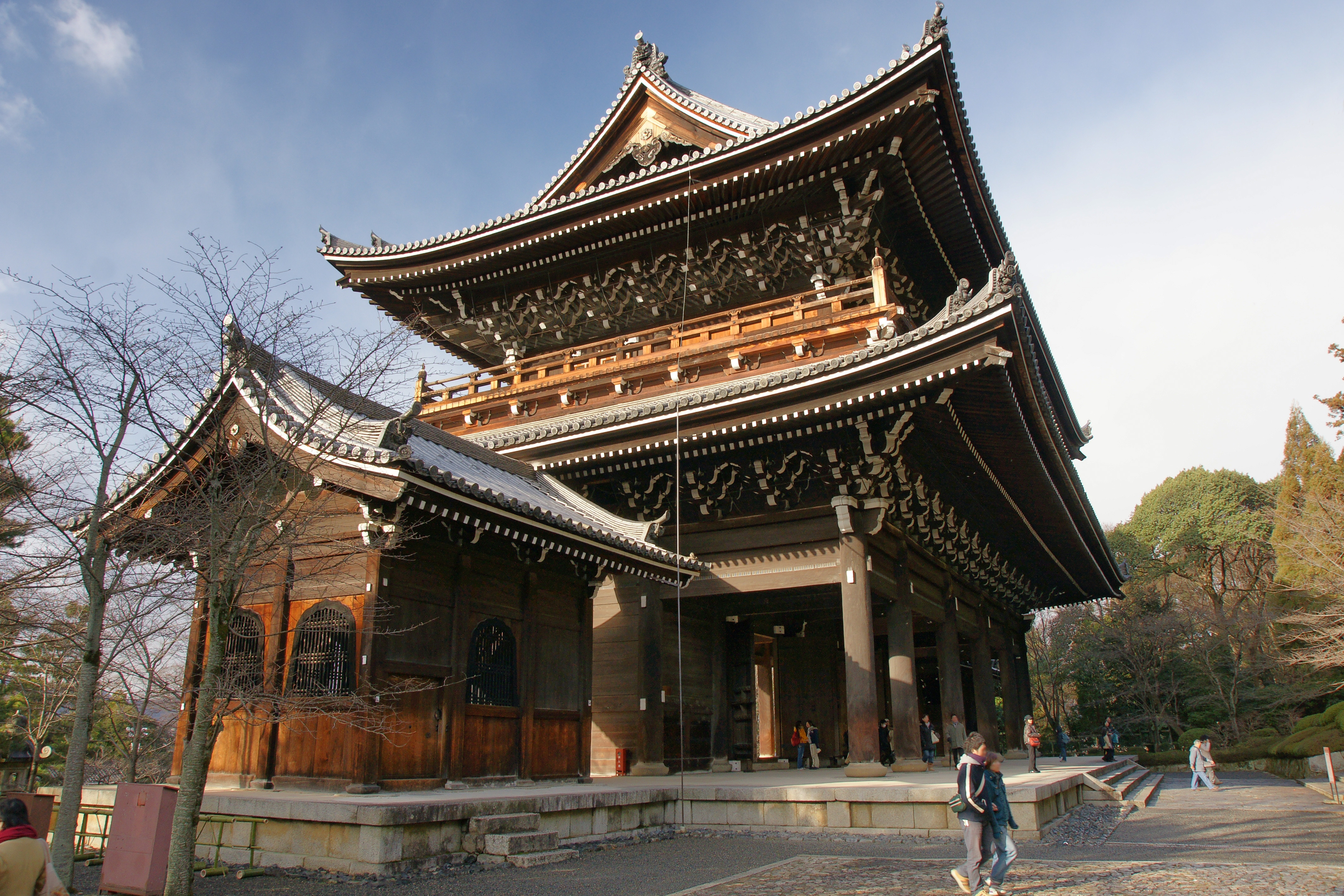 Sanmon of Chion-in Buddhist temple (Japan's national treasure), Kyoto, Kyoto Prefecture, Japan It was rebuilt in 1621.